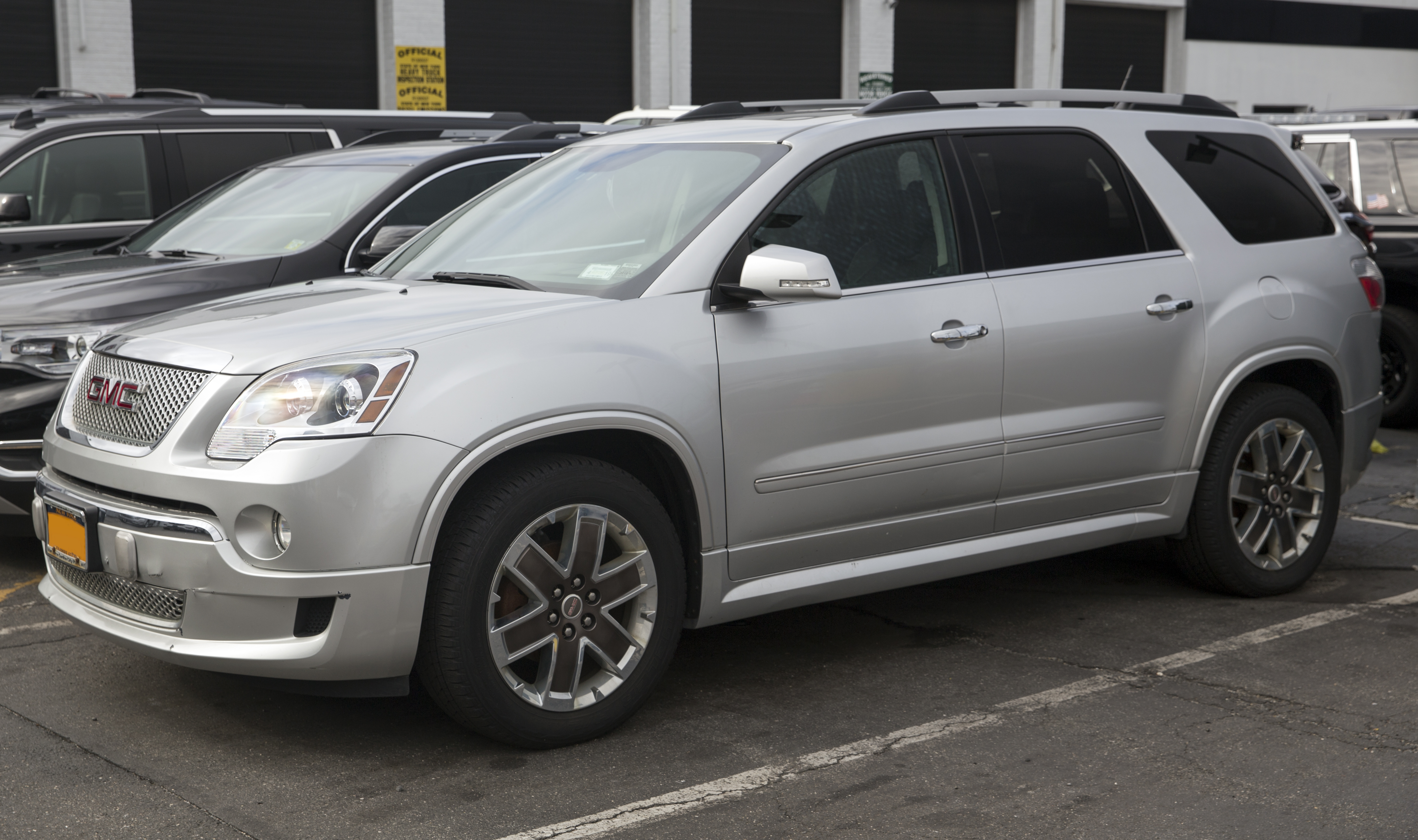 2011 GMC Acadia Denali